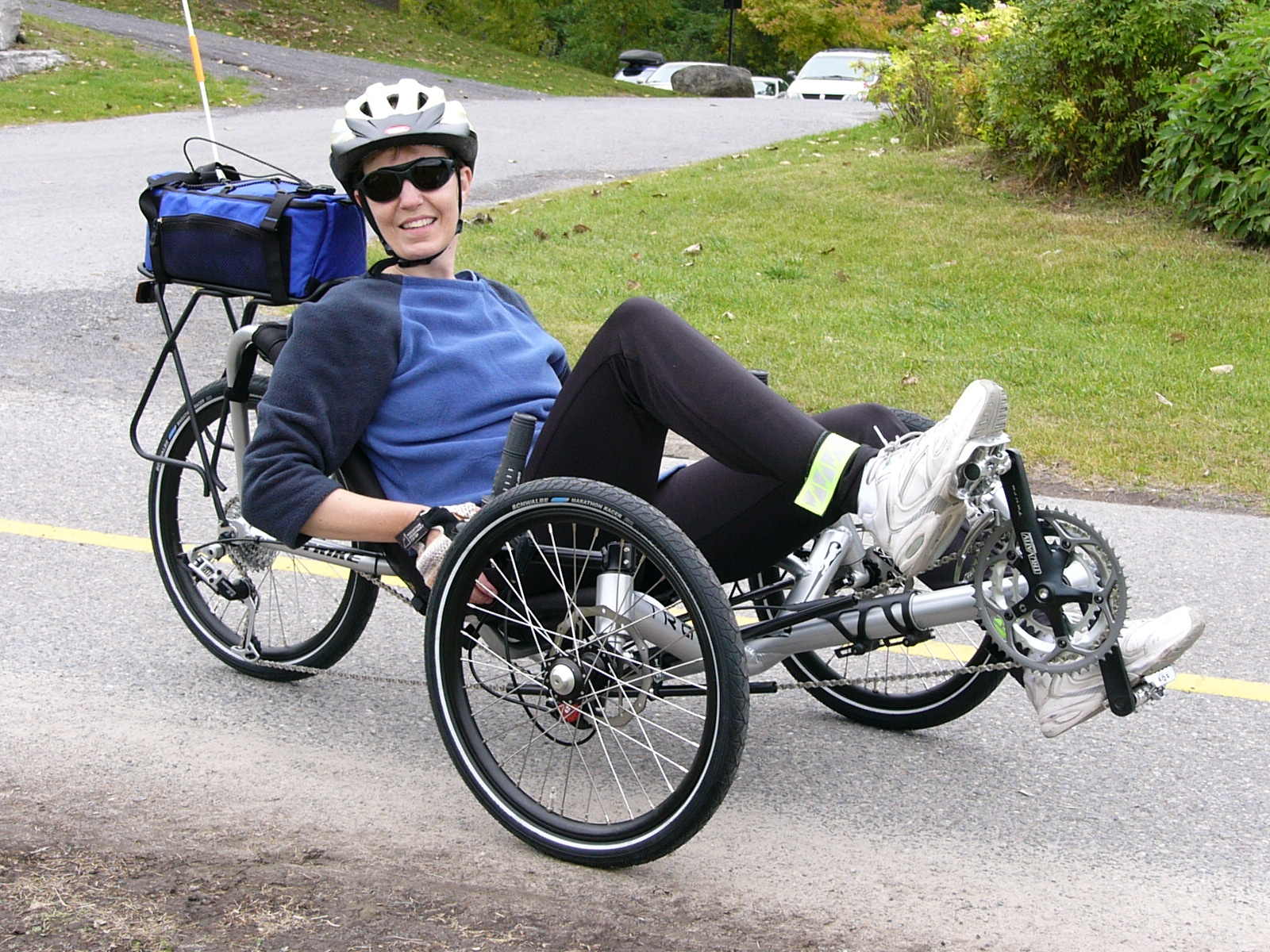 A Big Cat HPV Catrike Trail tadpole tricycle at Lac Leamy, Quebec, Canada